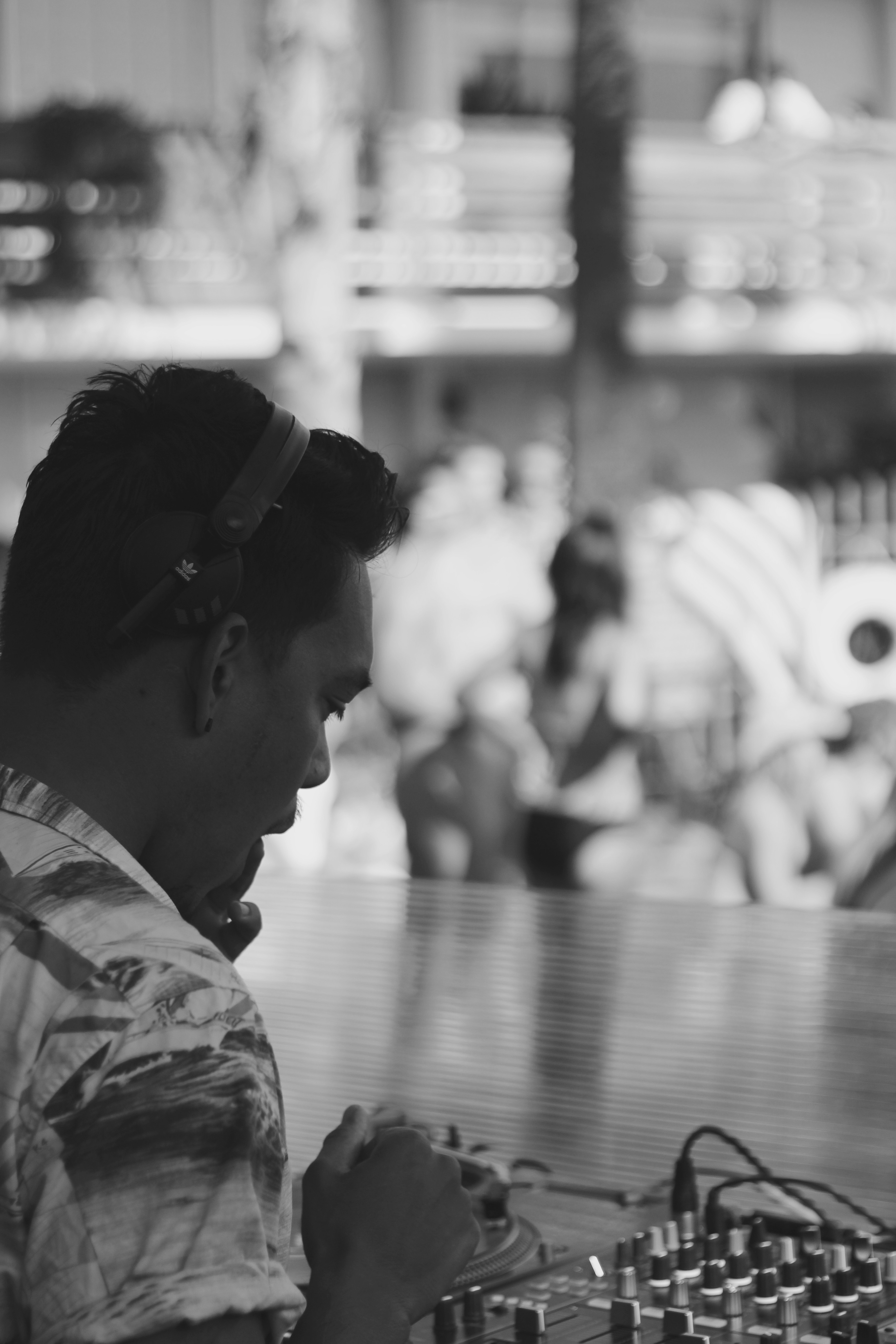 Dj Double-O